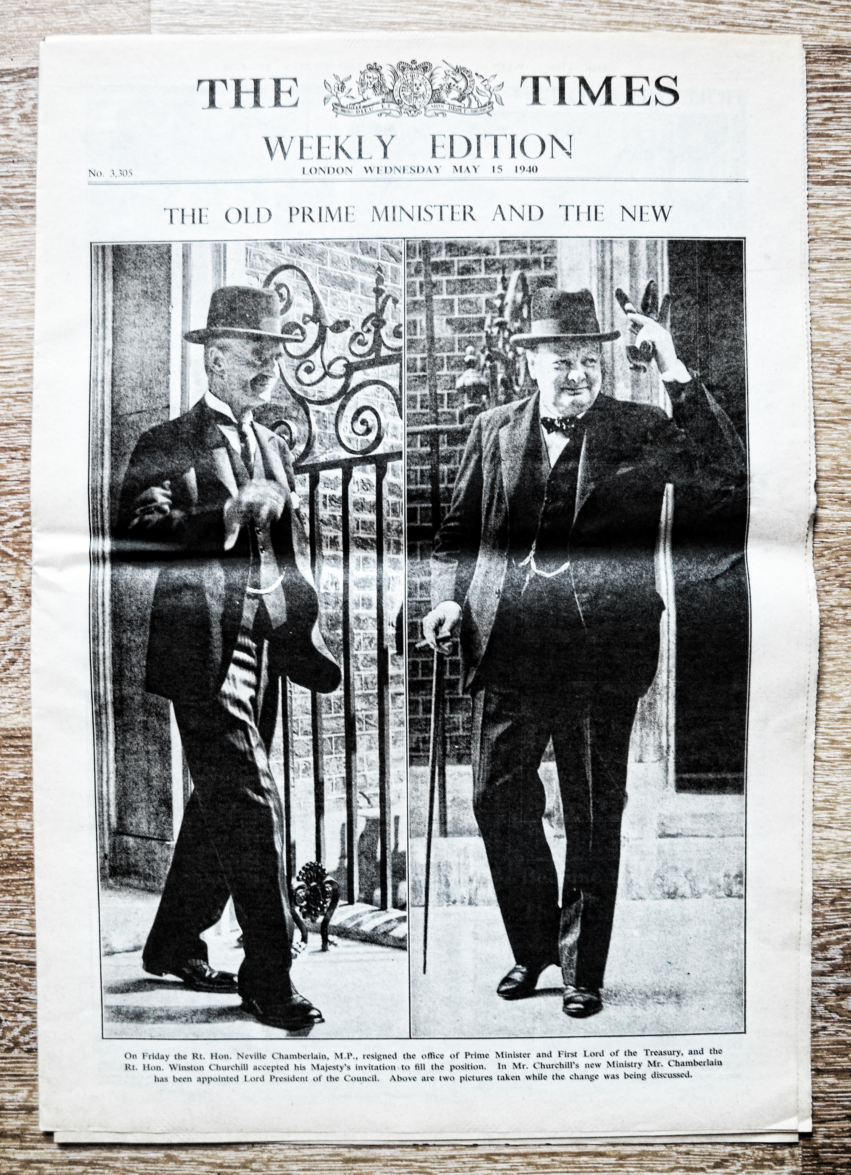 Frontpage weekly magazine "The Times" May 15 1940, With headline: "The Old prime minister and the new". Illustrated by photos of Prime Minister 'Neville Chamberlain' (Left) and Prime Minister 'Winston Churchill' (Right).